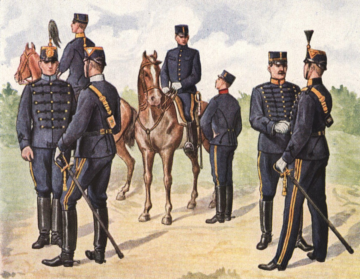 Uniforms of the Swedish army, Artillery